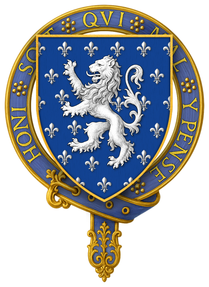 Coat of Arms of Sir Thomas Holland, KG “ Holand... azure, florettee and a lyon rampant gardant argent…by Sir Otes, K.G. (a founder), and Sir Thomas, K.G., at the siege of Calais 1345-8, the former then differenced with a cross patee gules on the lyon… ” FOSTER, Joseph, Some Feudal Coats of Arms from Heraldic Rolls 1298-1418, London: James Parker & Co., 1902. See also: ST. JOHN HOPE, W. H., The Stall Plates of the Knights of the Order of the Garter 1348 – 1485: A Series of Ninety Full-Sized Coloured Facsimiles with Descriptive Notes and Historical Introductions, Westminster: Archibald Constable and Company LTD, 1901.